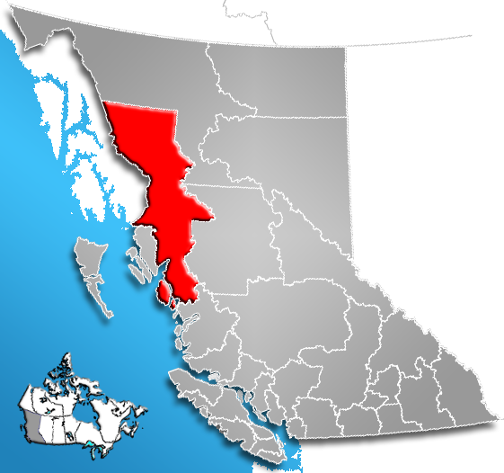 Location of Regional District of Kitimat-Stikine, British Columbia